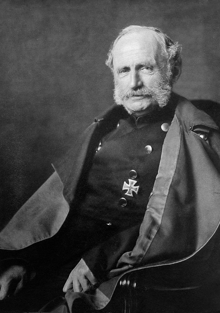 Albert of Saxony